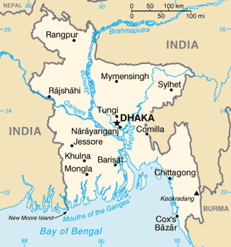 Bangladesh map from CIA World Factbook, converted from original GIF format